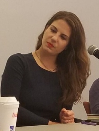 Lauren Duca of Teen Vogue is amazing and I'm so pleased we got to meet her.